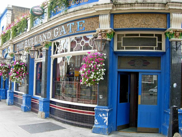 The Bull and Gate, Kentish Town. Pub and live music venue at the junction of Kentish Town Road, Highgate Road and Fortress Road.